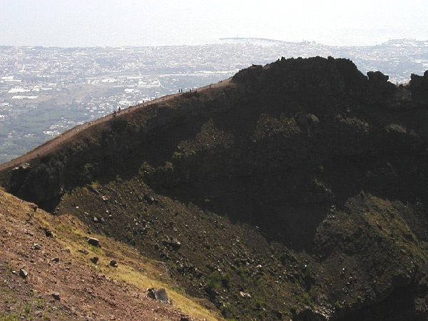 Inner crater wall of Mount Vesuvius. Image by A Outra Voz